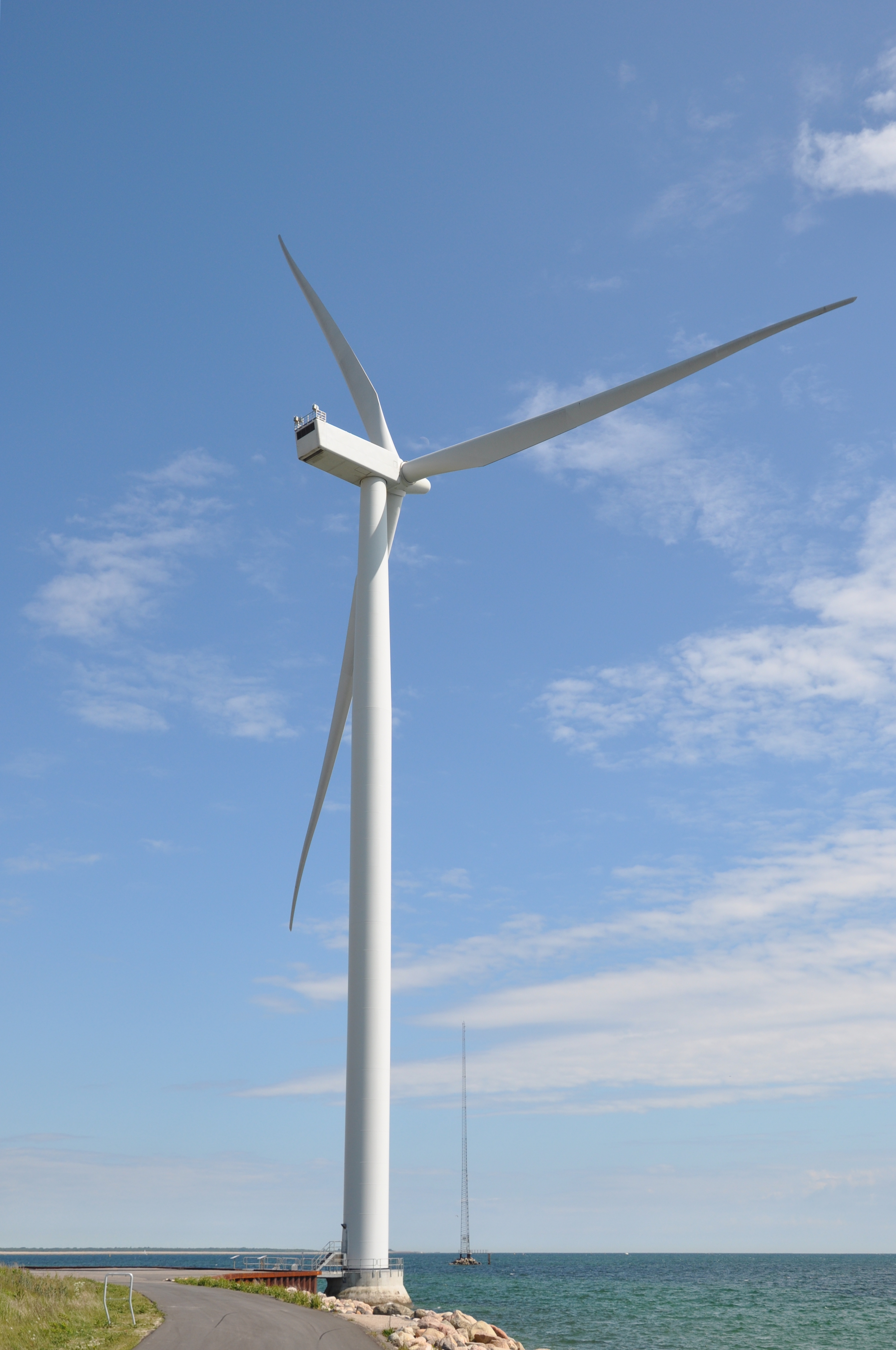 A wind turbine (Siemens SWT-3.6-120) just off Avedøre Holme southwest of Copenhagen, Denmark.